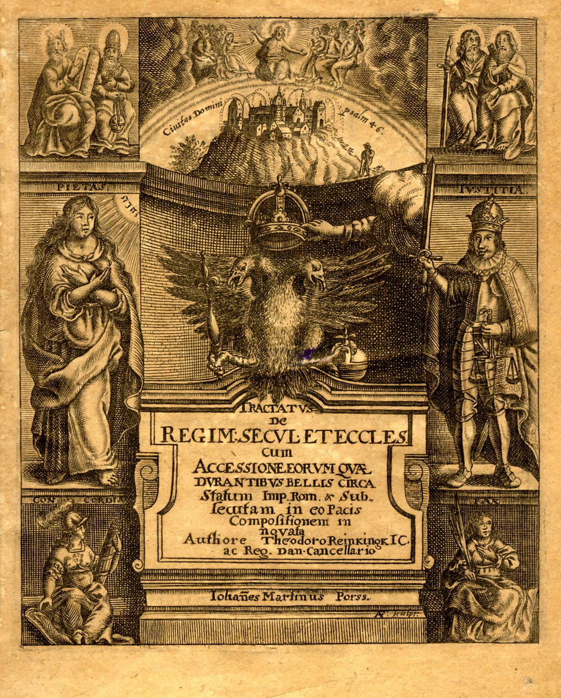 de: Dies ist ein Scan eines historischen Textes: en: This is a scan of the historical document